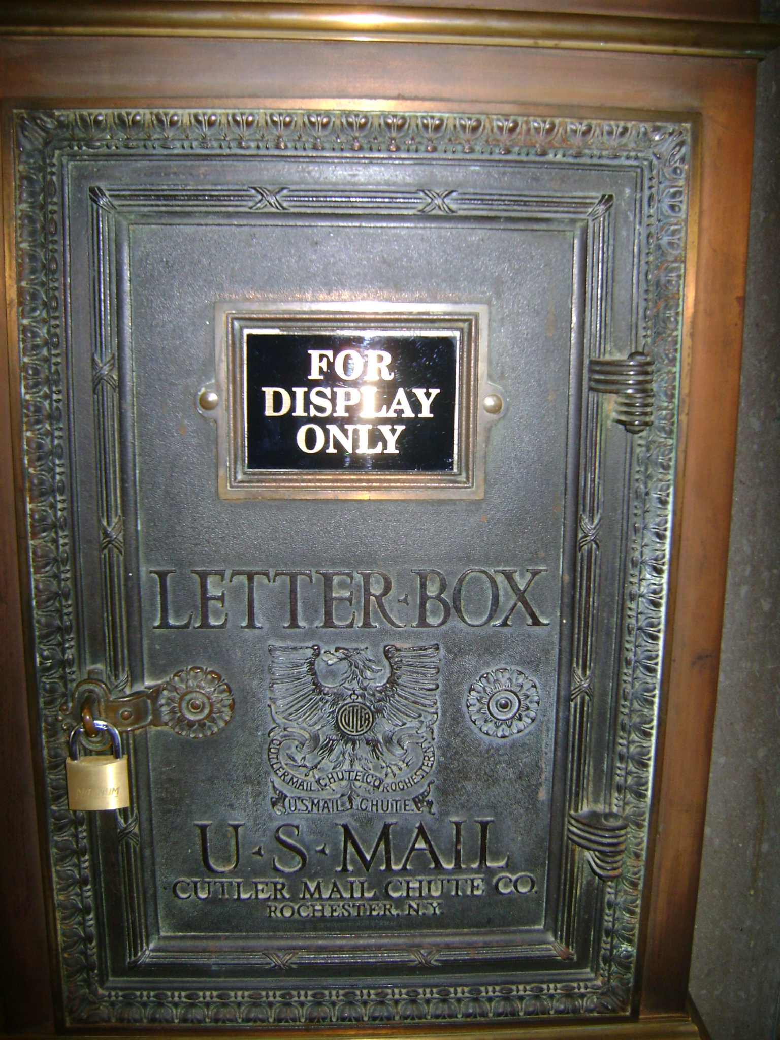 Old mail chute display at Grove Arcade, Asheville, North Carolina